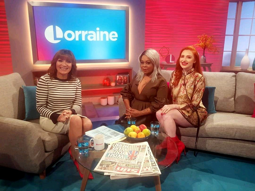 Loaded Sista at Lorraine, an early weekday morning, lifestyle and entertainment show for ITV, presented by Lorraine Kelly. The interview is also available on YouTube: The Voice's 'Loaded Sista' Aren't Letting Their Age Stop Them!